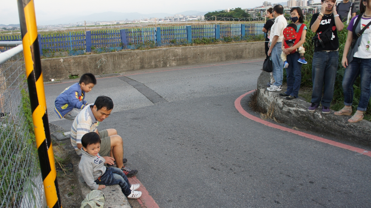 Intersection in Binjiang St Template:Zhㄊㄦ